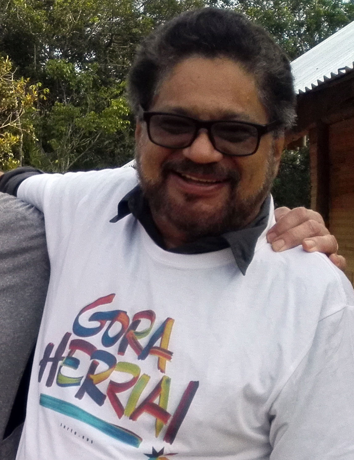 Ivan Marquez, leader of FARC, in he X. Congress of the guerrilla. He wears a T-shir wih a basque language translaion of "Viva el pueblo"